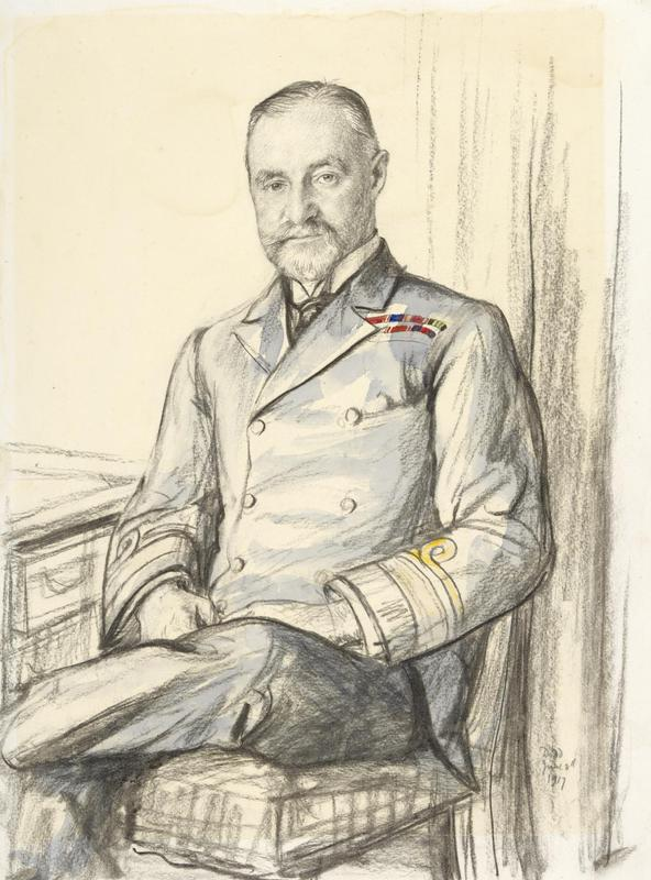 Rear-admiral Richard Fortescue Phillimore, Cb, Mvo image: a three quarter length portrait of the bearded Rear Admiral Richard Phillimore in Royal Navy uniform, sitting beside a desk on the left of the composition.